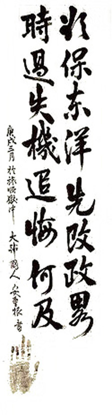 calligraphy by General Ahnjunggeun